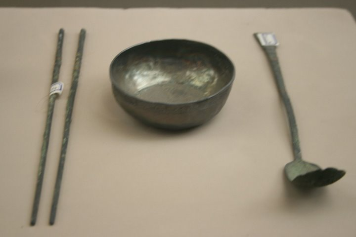 Chinese silver chopsticks, cup, and spoon from the Song Dynasty (960-1279 AD) of medieval China.